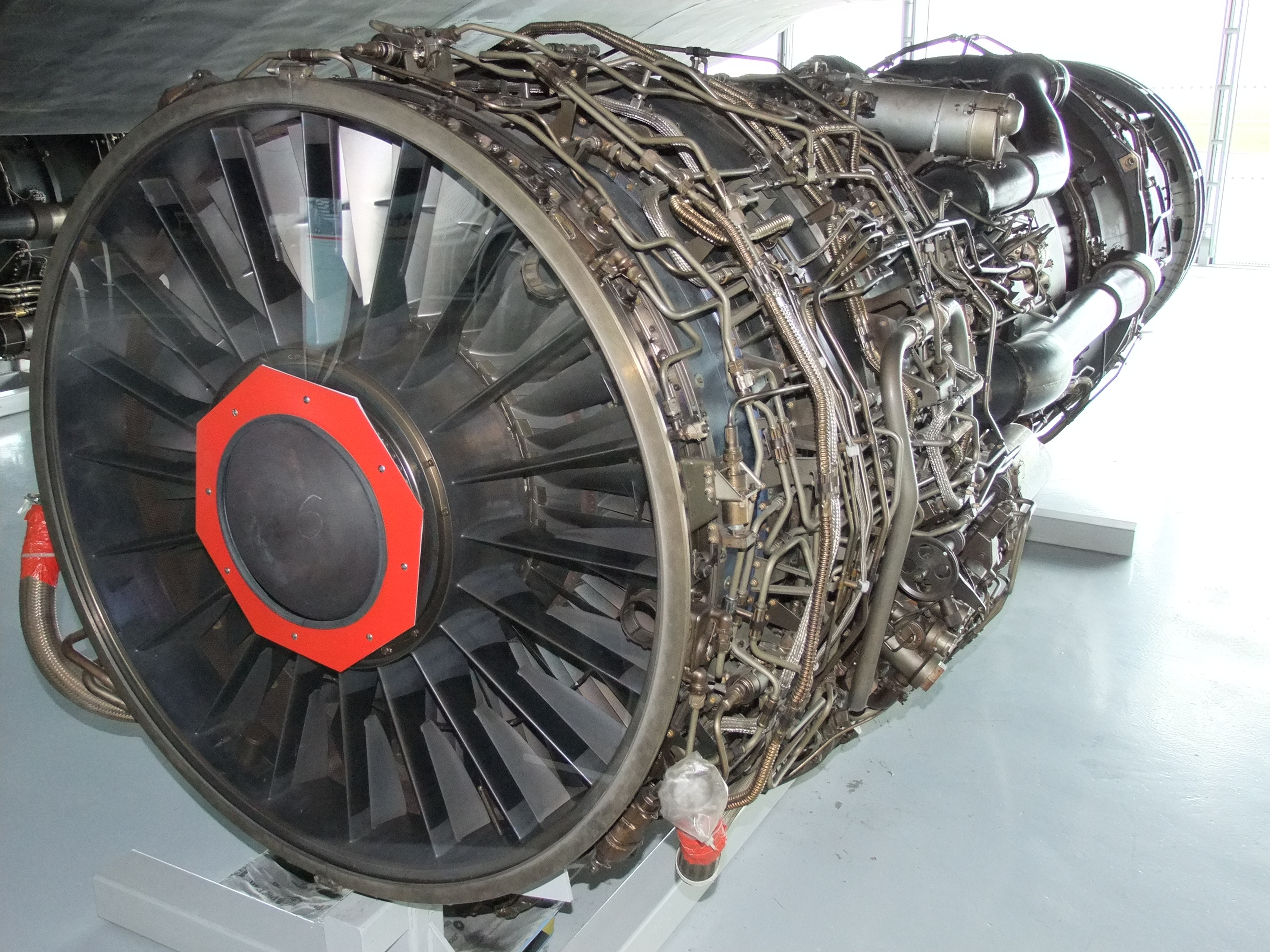 Pratt & Whitney J58 Turbojet producing 32,500 lb (14,742 kg) thrust with afterburner as displayed at the Imperial War Museum at Duxford, Cambridgeshire, UK, alongside Lockheed SR71A 'Blackbird' 61-7962 from which it was removed.